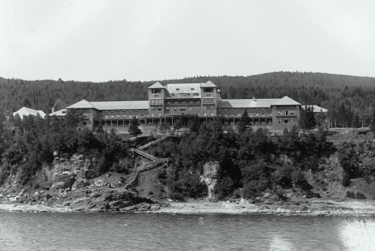 Photograph, Manoir Richelieu, Murray Bay, QC, about 1899, Wm. Notman & Son, Silver salts on glass - Gelatin dry plate process - 20 x 25 cm. Wooden construction of 1898, destroyed by fire Sept 12, 1928.